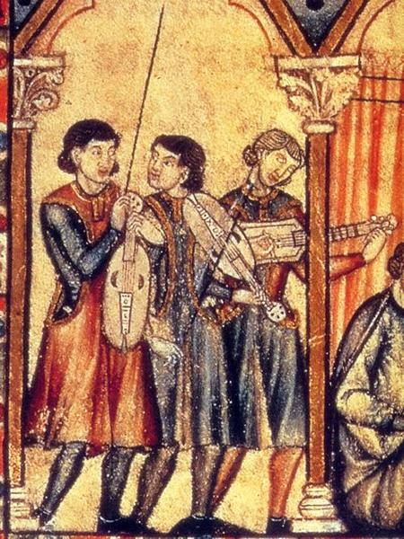 Cropped version of an image from the Cantigas de Santa Maria, showing two vielles and a citole. Image from the codex MS T.I. 1 (Códice Rico (T) from El Escorial) of the Cantigas de Santa Maria.